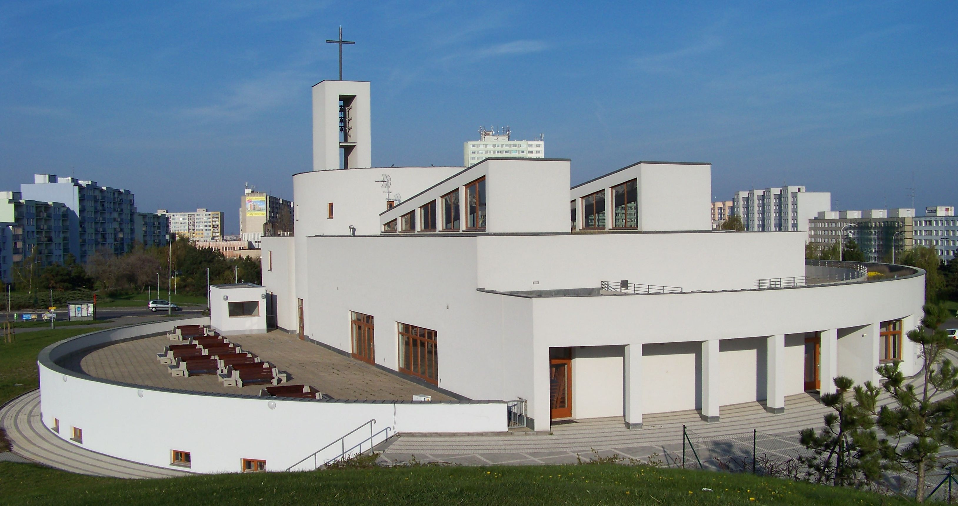 Chodov, Prague, the Czech Republic. Jižní Město, Central Park. Church community centre. - Google Maps - Google Earth